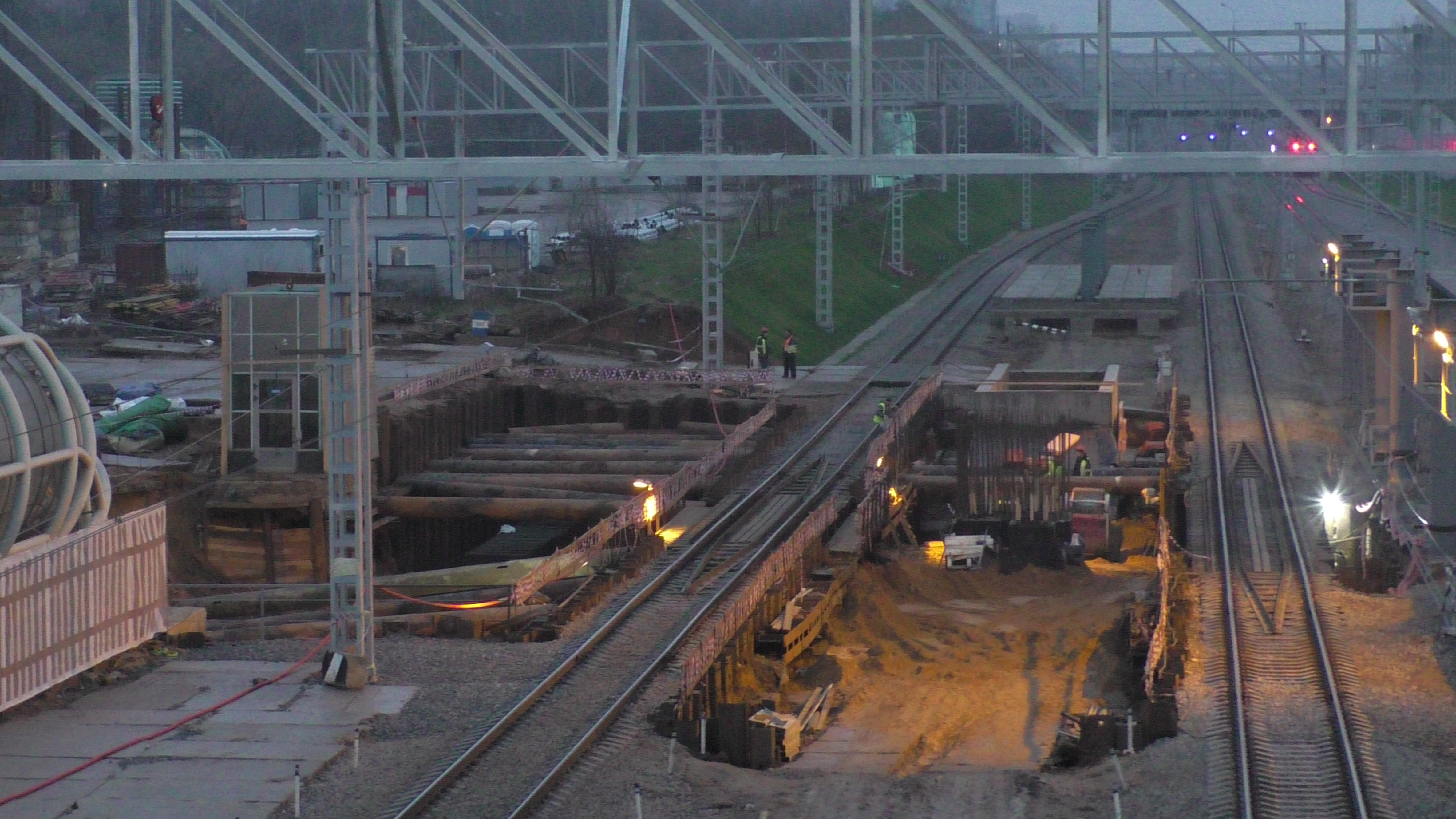 Slavyanskiy bulvar